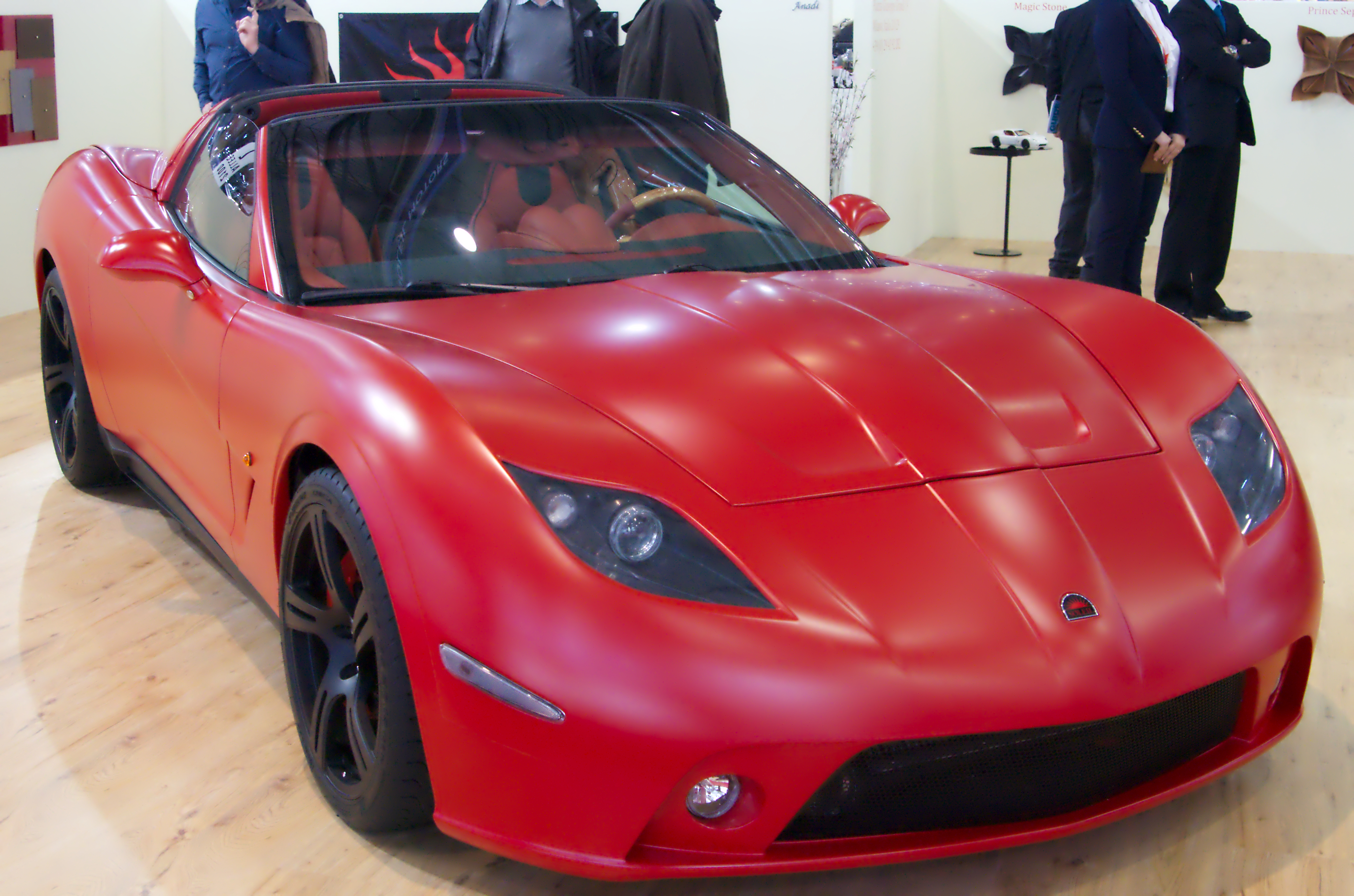 Geneva MotorShow 2013 - Soleil Anadi